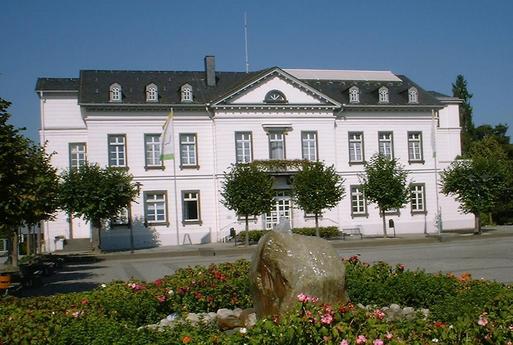 Town hall in Sinzig in Rhineland-Palatinate, Germany